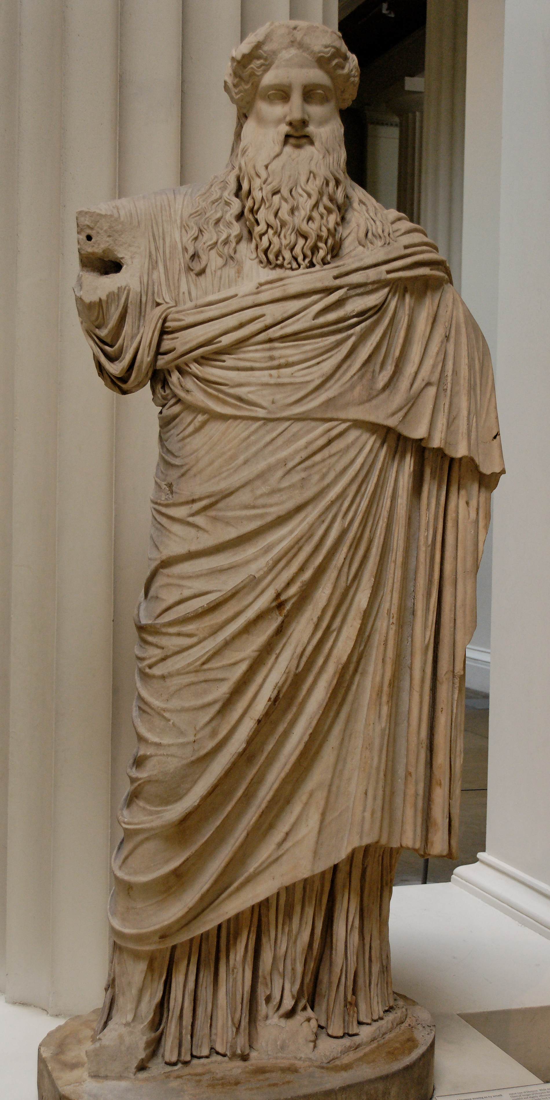 Statue of Dionysos of the Sardanapalos type. Pentelic marble, Roman copy of 40-60 AD after a Greek original of ca. 350-325 BC. Said to be from Posillipo, near Naples.